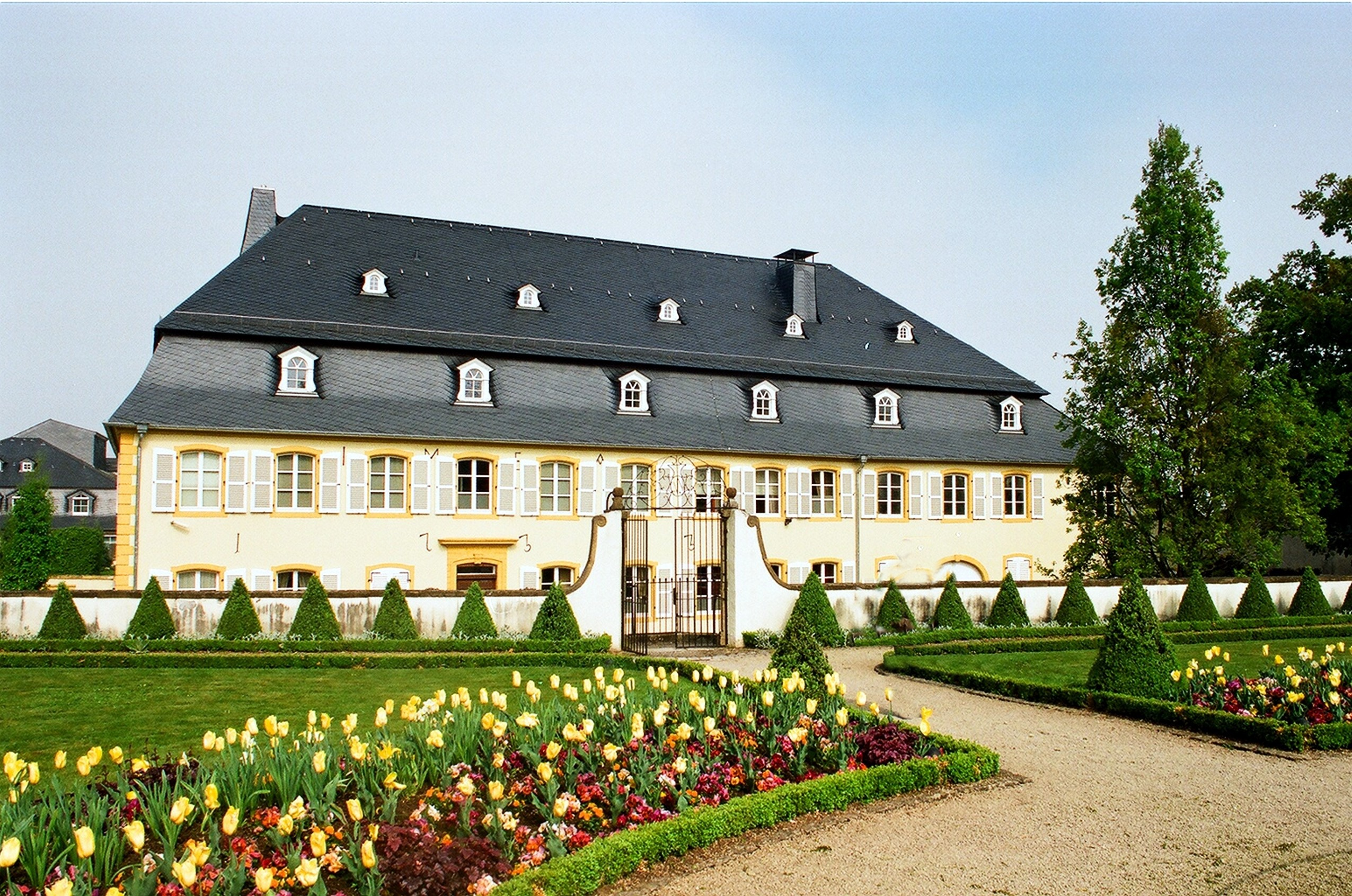 Perl (Mosel), the Baroque park and the palace of Nell